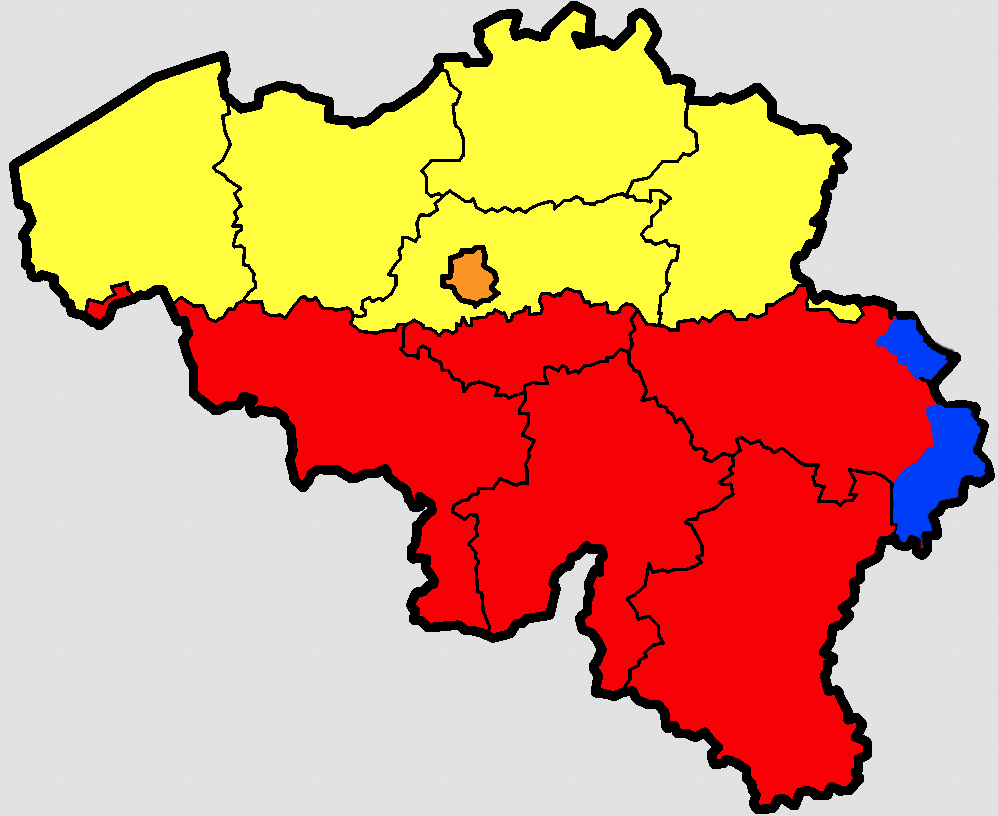 Map of Belgium showing the provinces (black lines), regions and communities (colours). Yellow = Flanders, Red+Blue = Wallonia, Orange = Brussels Capital Region, Yellow+Orange = Dutch-speaking part, Red+Orange = French-speaking part, Blue = German-speaking part.